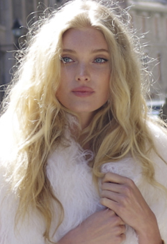 Elsa Hosk - Backstage Lancaster in Montreal